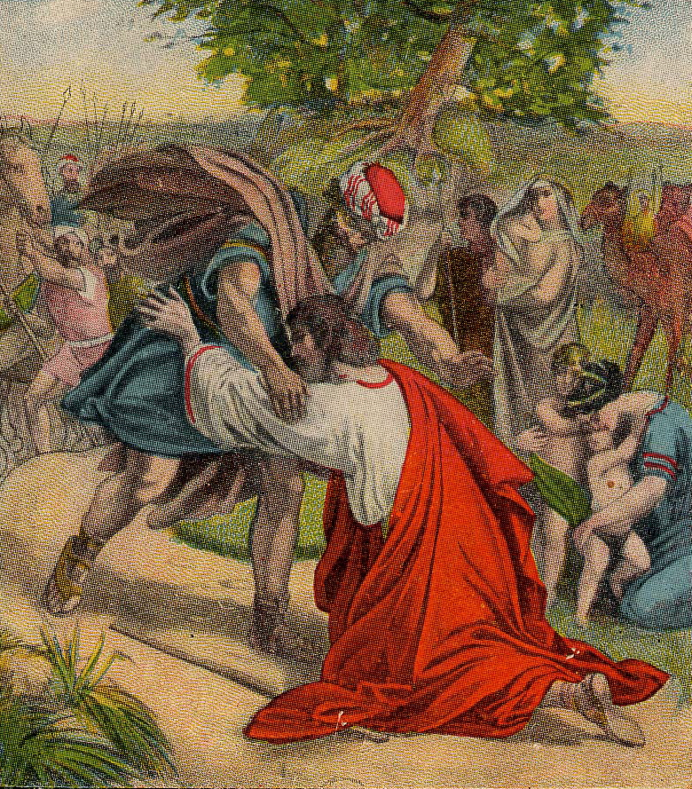 Forgive, and ye shall be forgiven, as in the reconciliation of Jacob and Esau in Genesis 33, after Julius Schnorr von Carolsfeld, illustration from a Bible card published by the Providence Lithograph Company